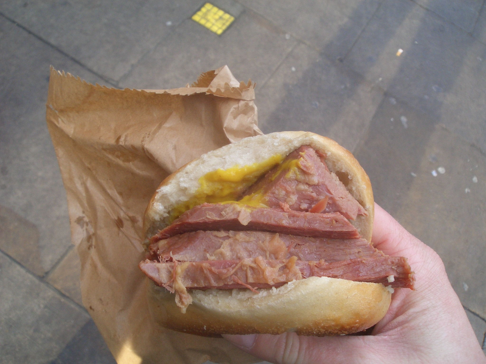 Salt beef bagel bought on Brick Lane. Photo by User:Edward, taken 27 November 2005.